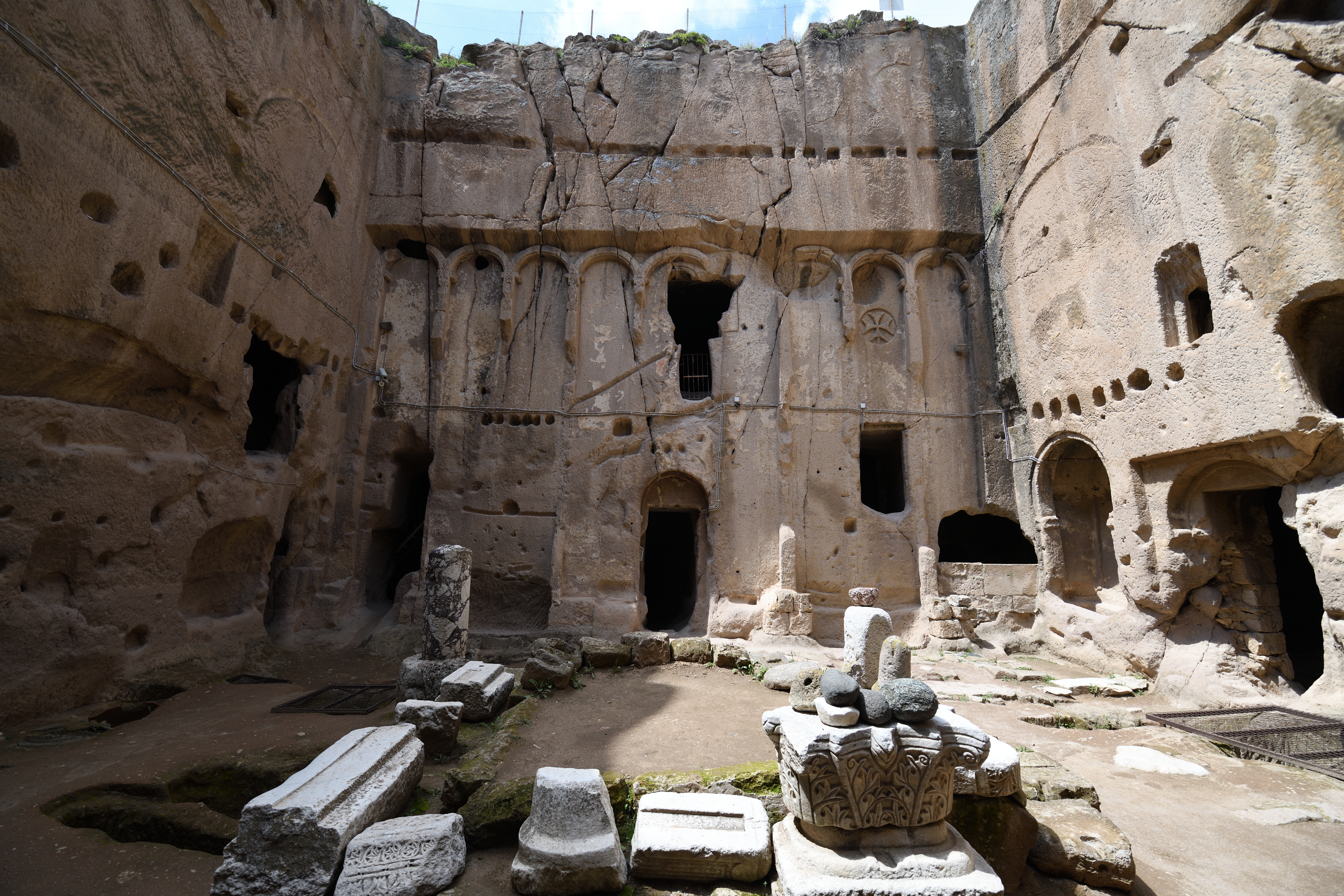 See the Wikipedia (English) article to know more. The monastery is carved out of a large rock and is one of the best preserved and largest of its kind in the Cappadocia region. There are quite a few monasteries hewn out of the rock in Cappadocia and some scholars split these into two types: those with dining halls and those with open courtyards. The Gümüşler Monastery is part of the second group. The most important part of the monastery complex is the church to its north. The name should inform somewhat about the subject.